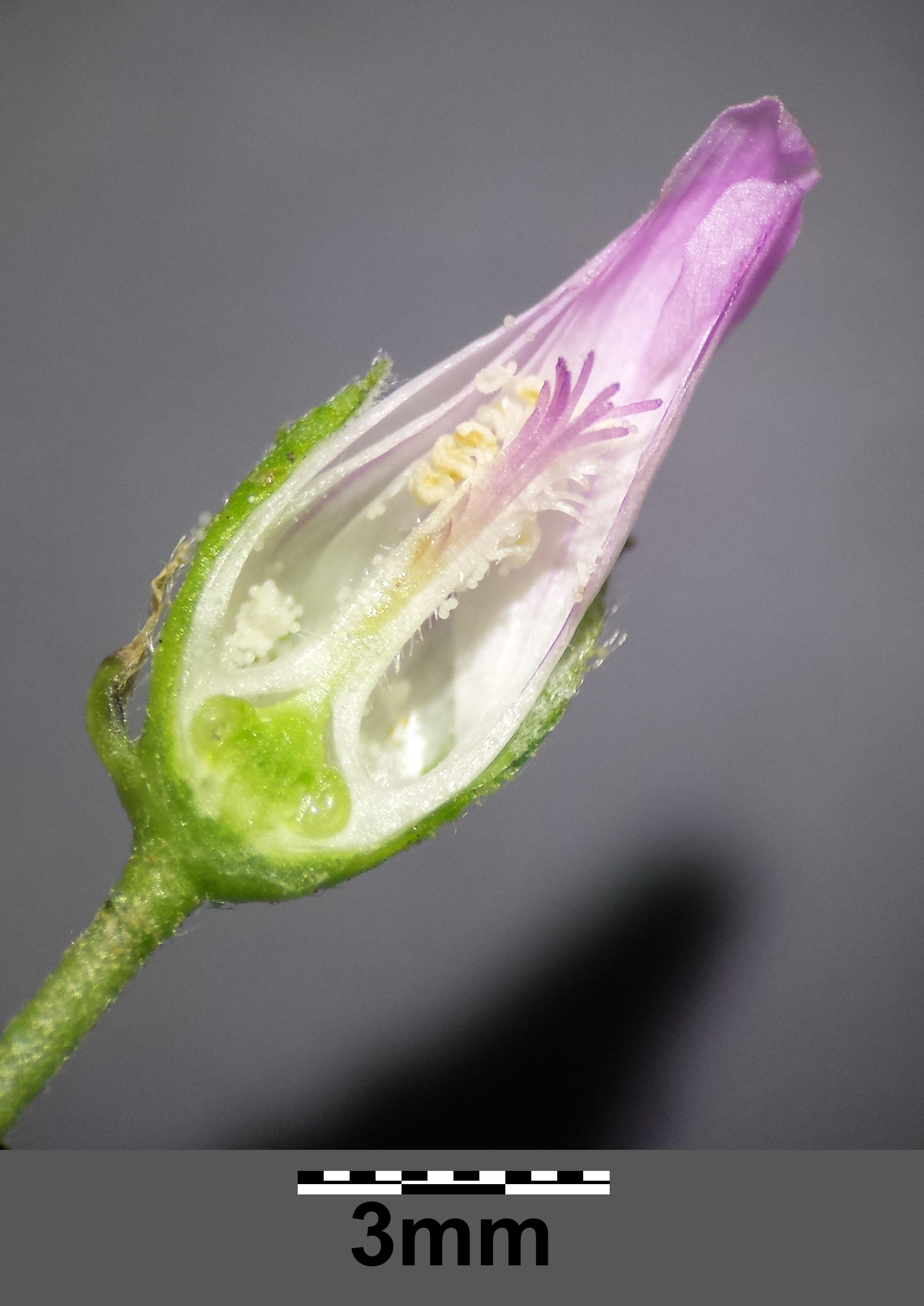 Opened flower Taxonym: Malva neglecta ss Fischer et al. EfÖLS 2008 ISBN 978-3-85474-187-9 Location: between Michelberg and Steinberg near Niederhollabrunn, district Korneuburg, Lower Austria - ca. 300 m a.s.l. Habitat: wayside